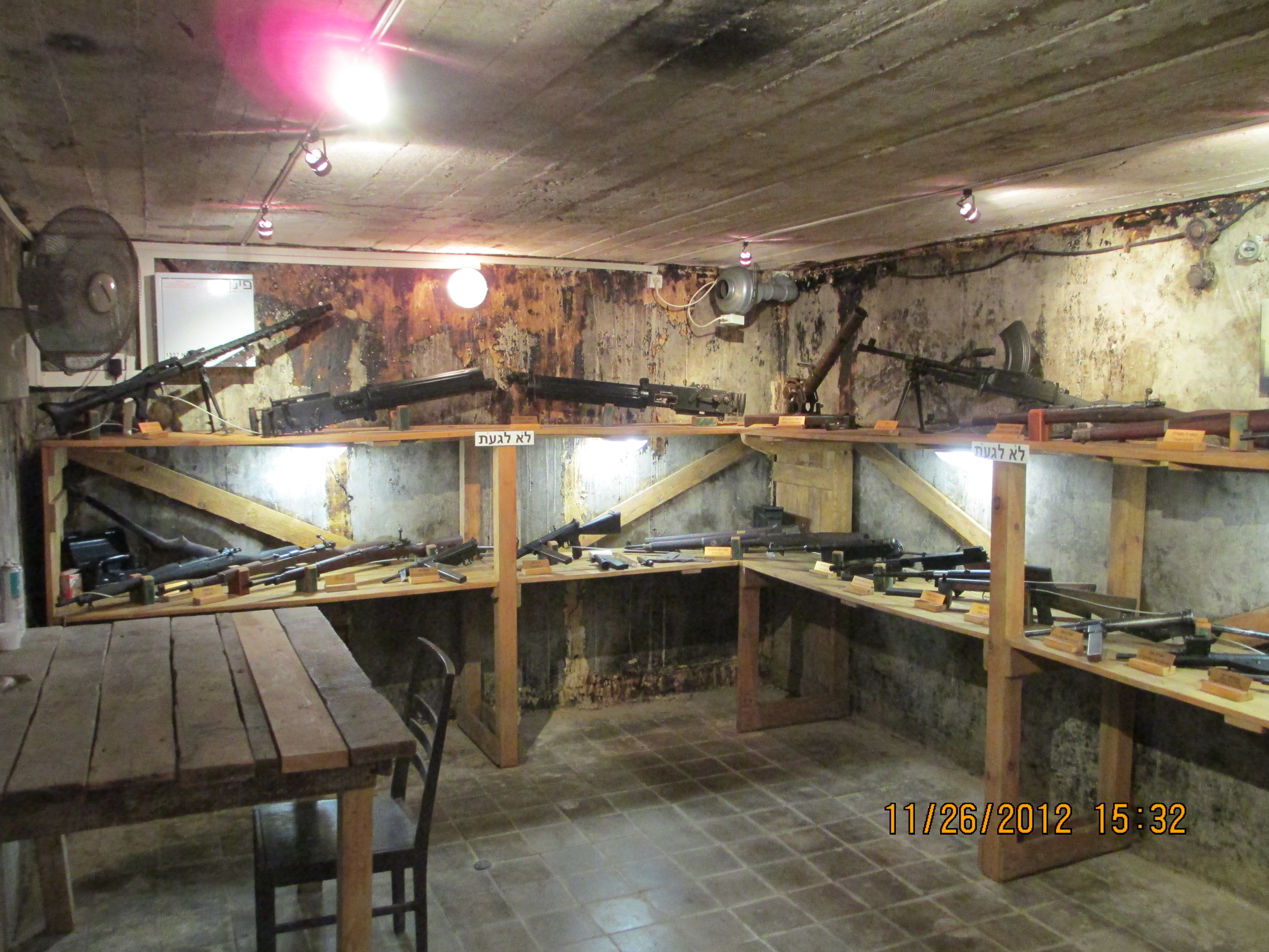 Slik (arms cache) in Kibbutz Ramat Yohanan